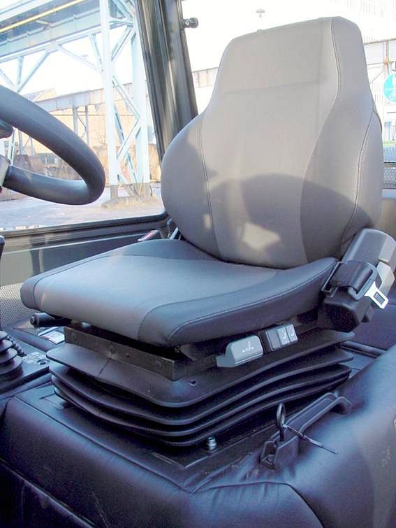 air-suspended shock-cushioning seat on a forklift